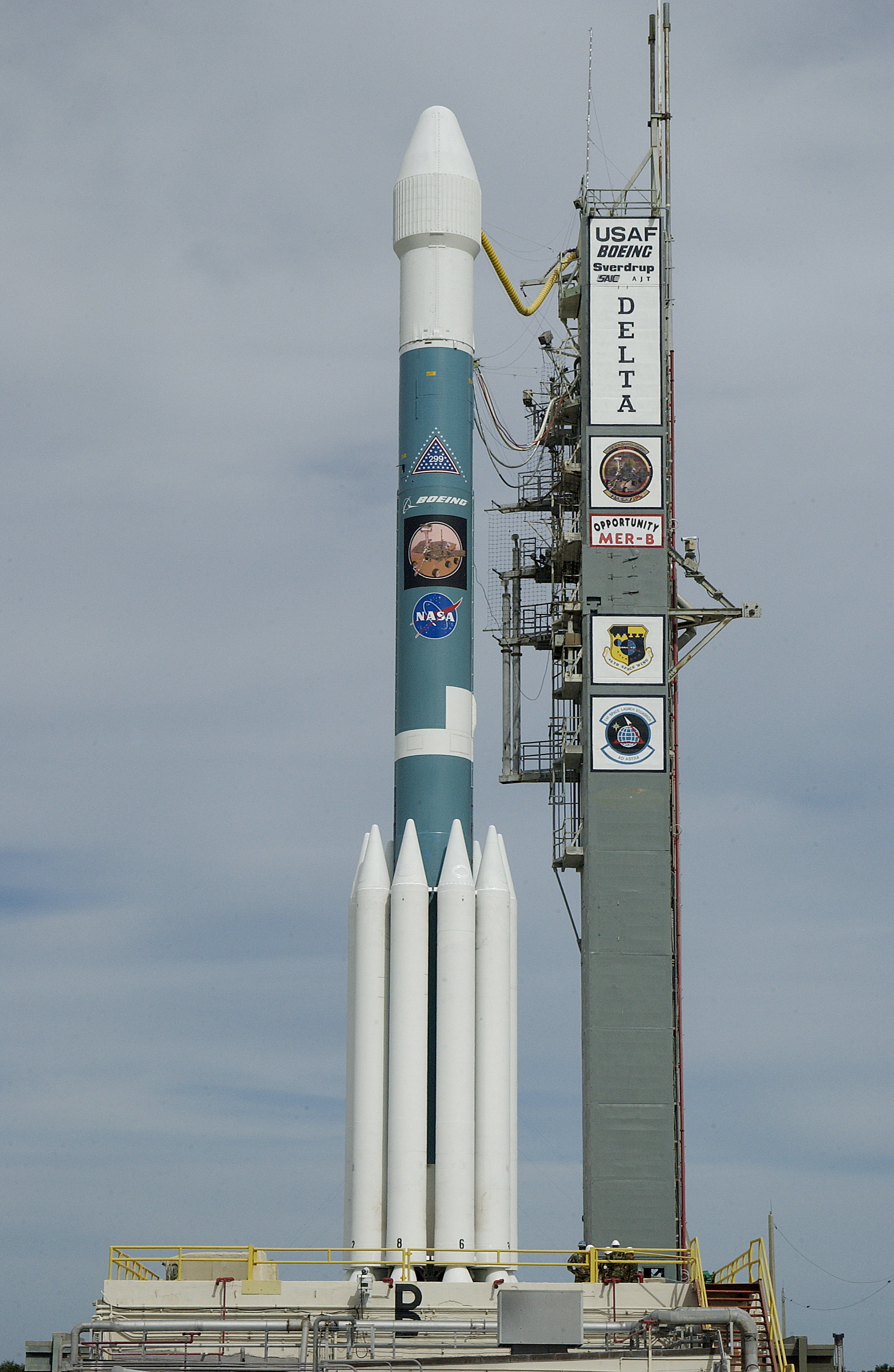 On Launch Complex 17-B, Cape Canaveral Air Force Station, the Delta II Heavy launch vehicle carrying the rover "Opportunity" for the second Mars Exploration Rover mission is poised for launch after rollback of the Mobile Service Tower. Opportunity will reach Mars on Jan. 25, 2004. Together the two MER rovers, Spirit (launched June 10) and Opportunity, seek to determine the history of climate and water at two sites on Mars where conditions may once have been favorable to life. The rovers are identical. They will navigate themselves around obstacles as they drive across the Martian surface, traveling up to about 130 feet each Martian day. Each rover carries five scientific instruments including a panoramic camera and microscope, plus a rock abrasion tool that will grind away the outer surfaces of rocks to expose their interiors for examination. Each rover’s prime mission is planned to last three months on Mars.